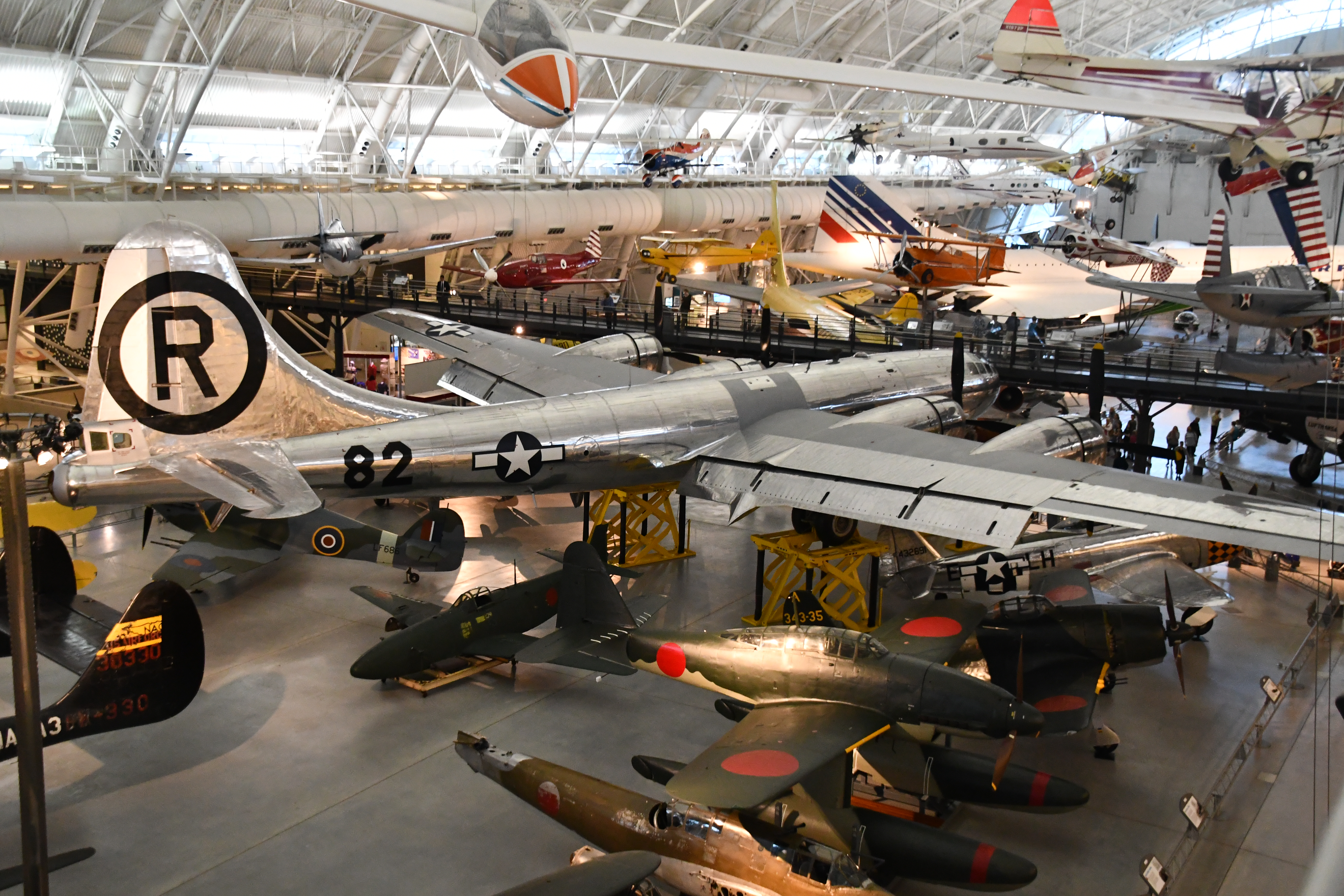 B-29 Enola Gay at the Steven F. Udvar Center, Chantilly, VA